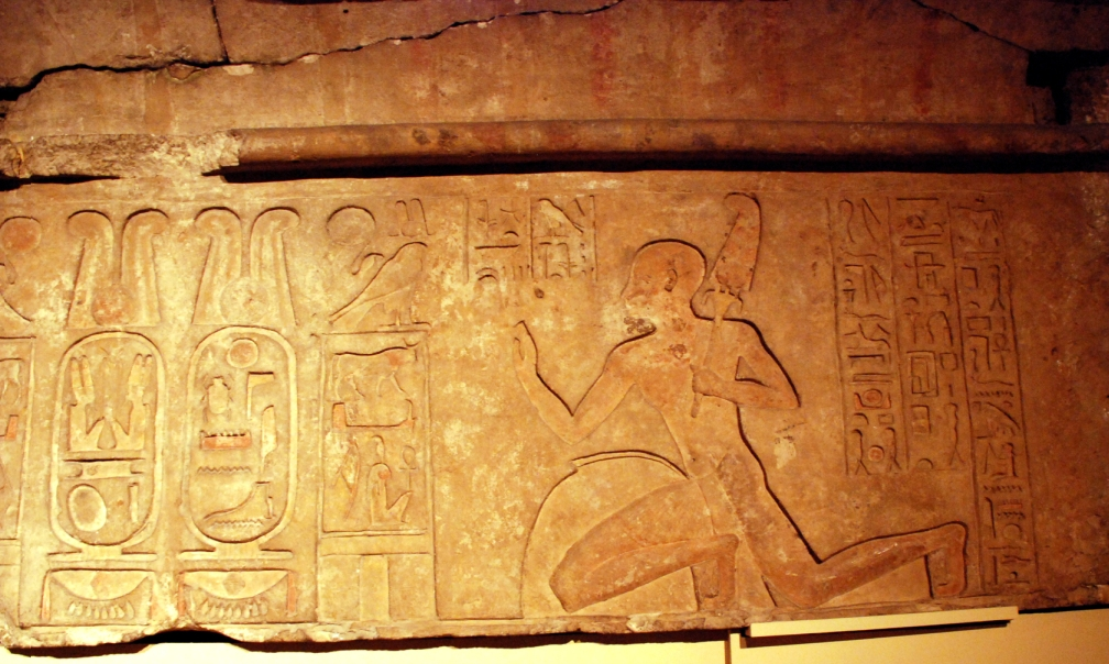 The 21st dynasty official Ankhefenmut kneels before and adores the royal name of king Siamun in this monumental doorway lintel originally from Memphis, Egypt. This object is today located in the University of Pennsylvania Museum, Philadelphia.